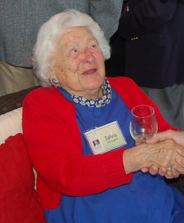 Congressman George Miller speaks with Sylvia McLaughlin. Sylvia is one of three women who started the movement to keep San Francisco Bay from being filled in the l960s, which led to establishment of Save The Bay. Save The Bay protects the Bay from pollution and inappropriate shoreline development, making it cleaner and healthier for people and wildlife.